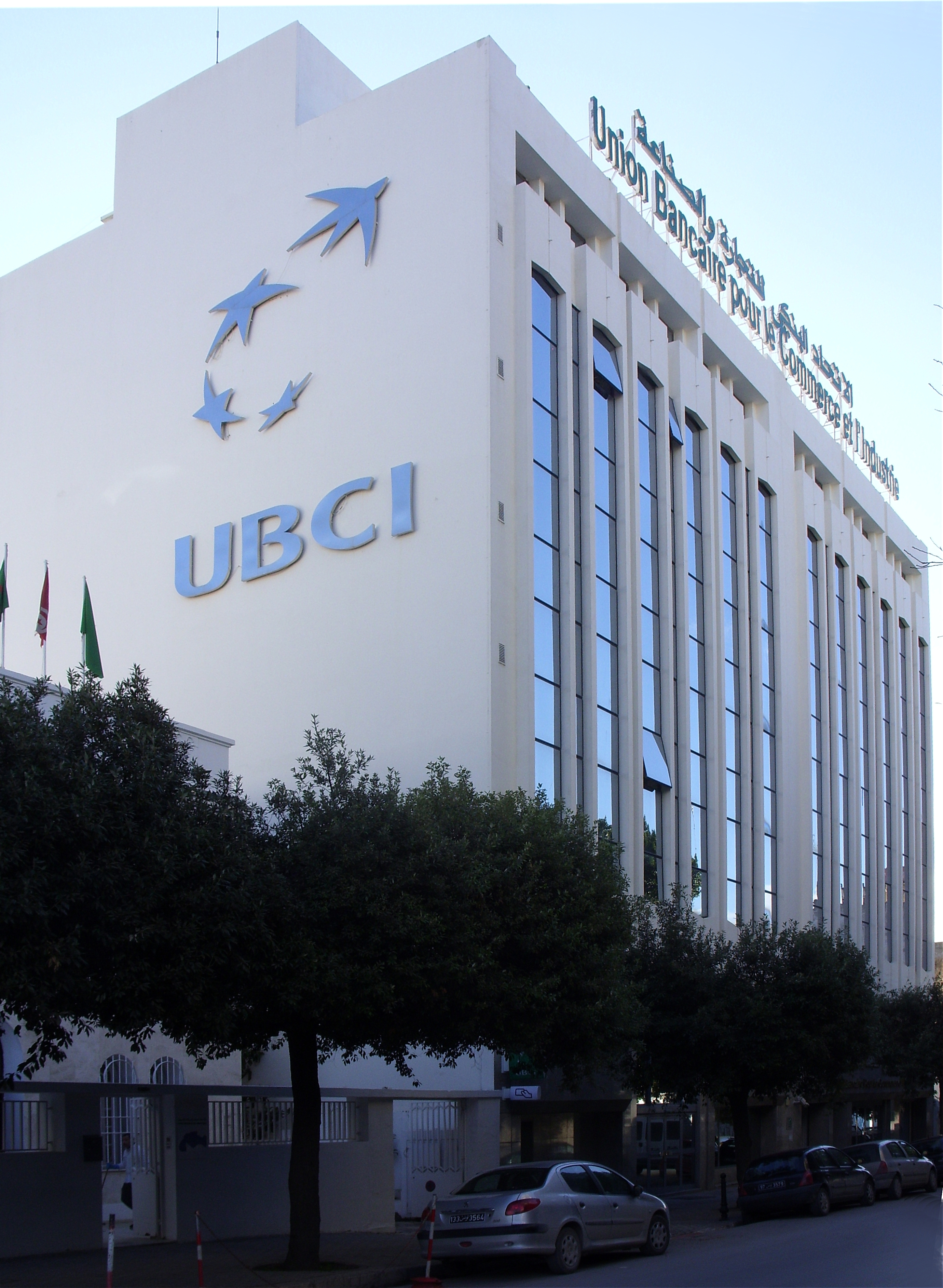 Union Bancaire pour le Commerce et l'Industrie headquarters